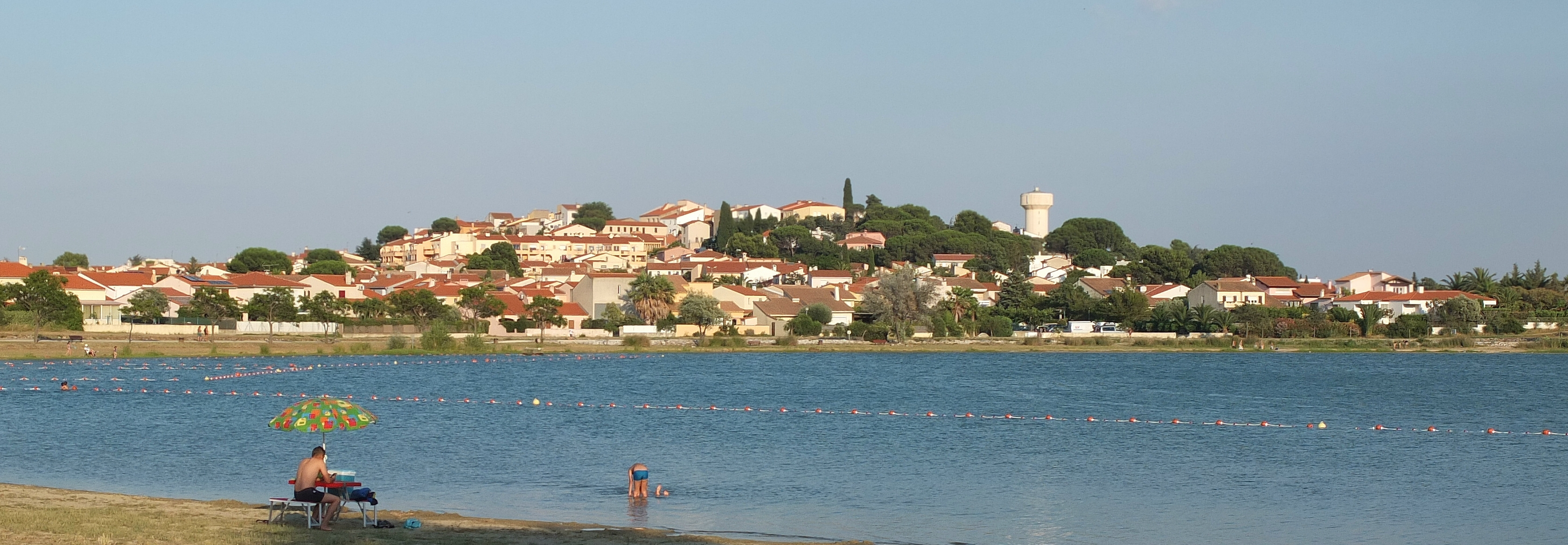 General view (northwest) of Vileneuve-de-la-Raho, Pyrénées-Orientales, France.